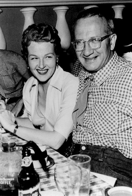 Photo of husband and wife Jo Stafford and Paul Weston enjoying an evening out in Hollywood in 1954.